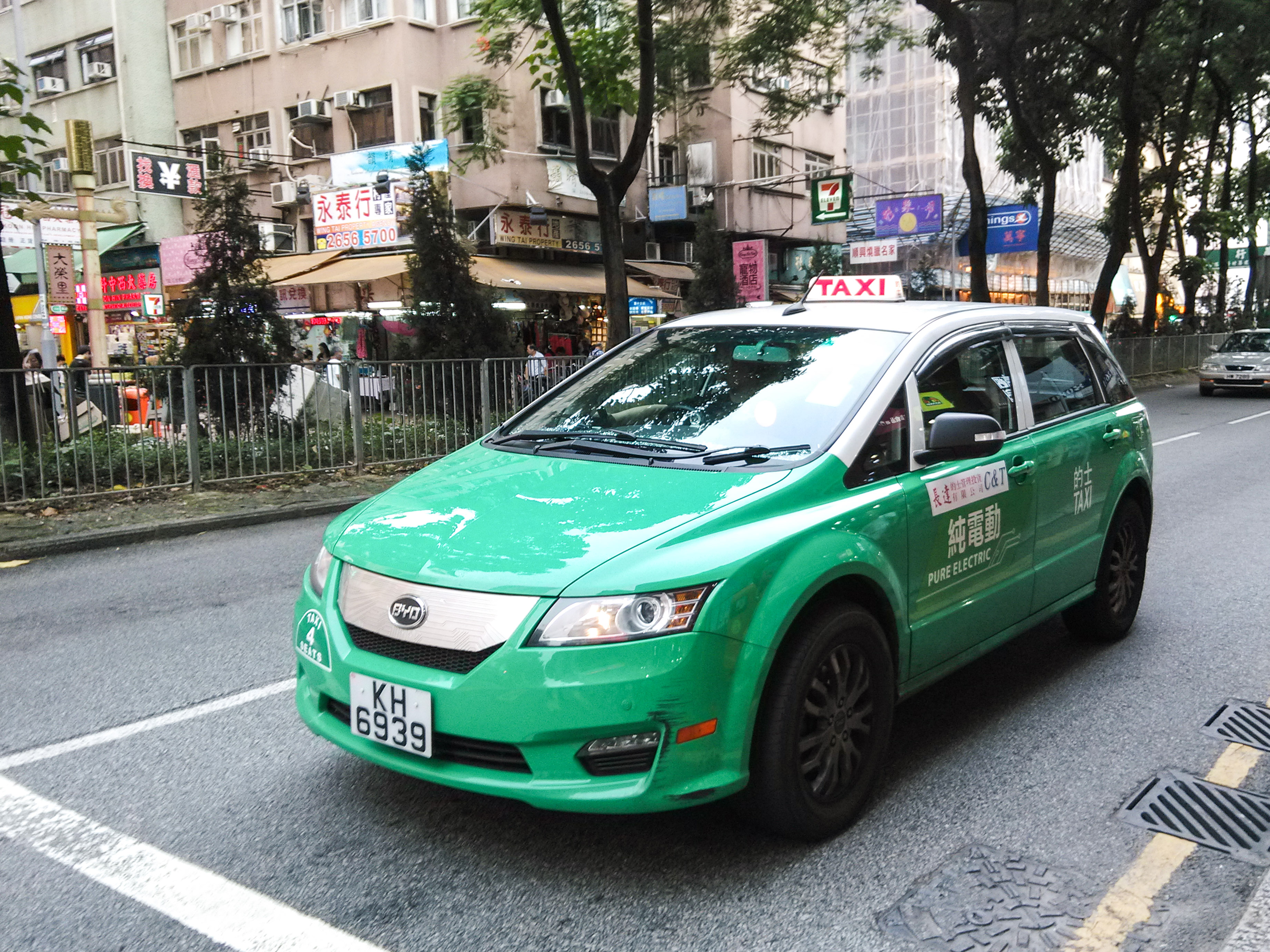 BYD e6 electric taxi in New Territories, Hong Kong